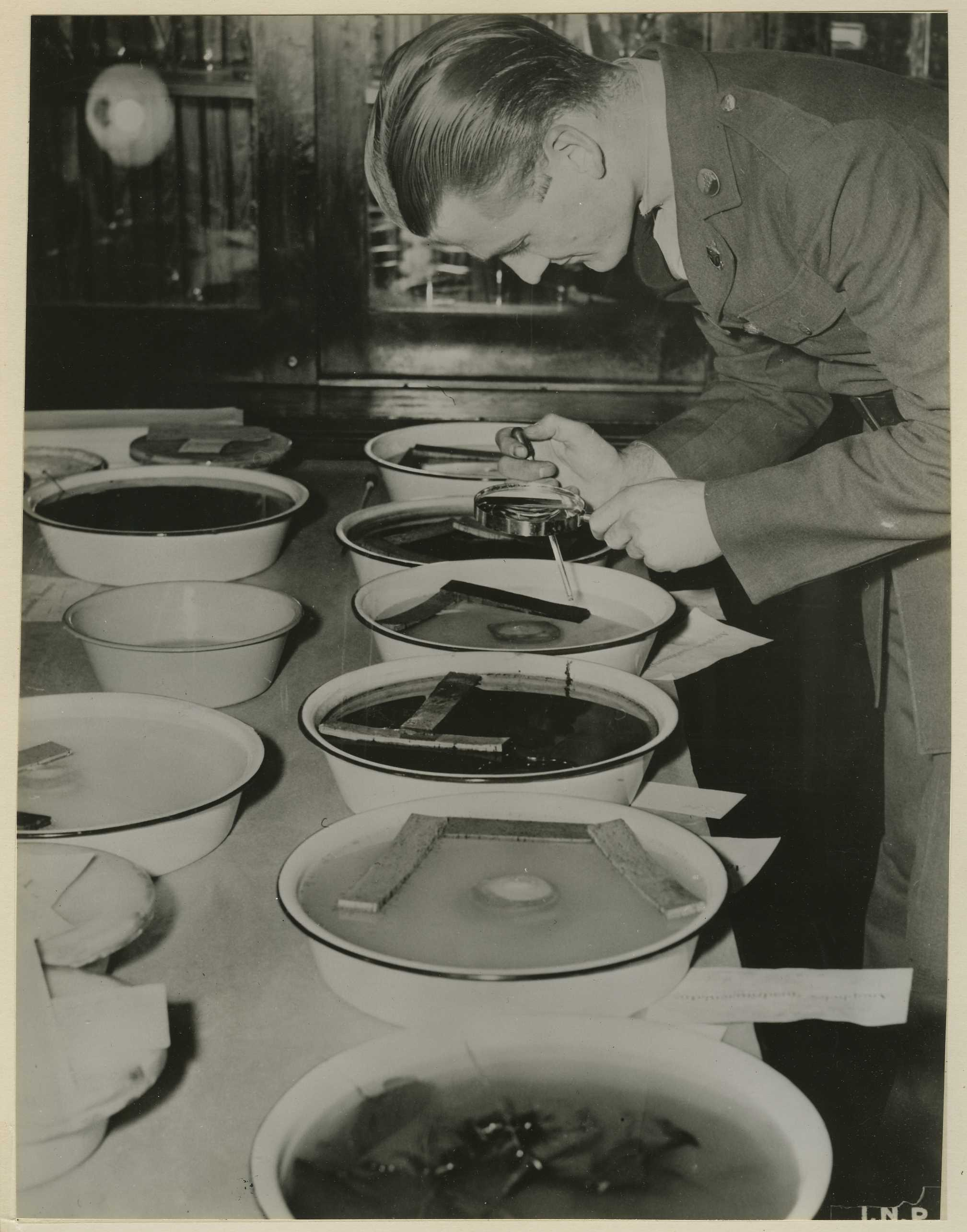 Technique for raising mosquitoes. Army Medical School. Division of Medical Entomology.